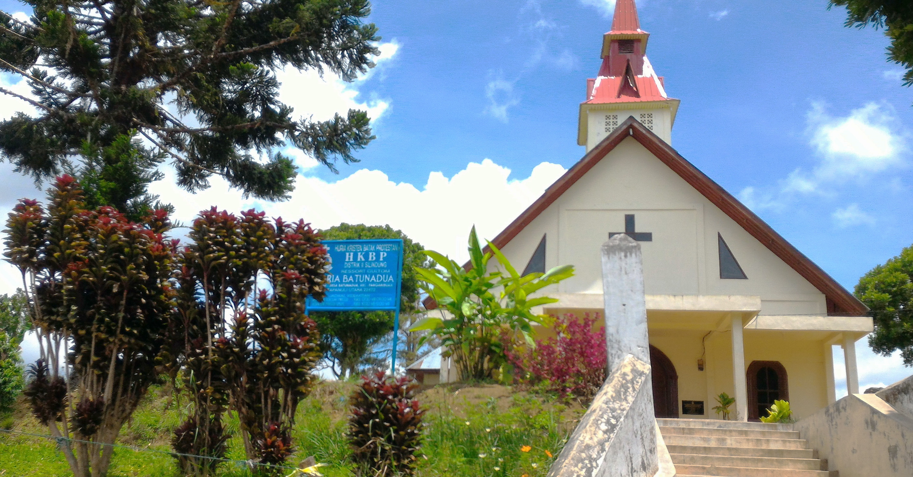 HKBP Batu Nadua, Church in Batu Nadua, Pangaribuan, North Tapanuli